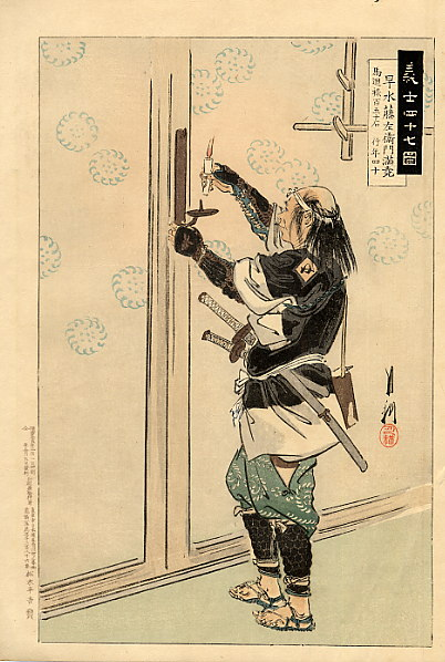 Ronin are masterless samurai. Chushingura is the true story of 47 samurai who became masterless in 1701, after their lord had been forced to commit ritual suicide (seppuku) for assaulting a court official who had insulted him. They avenged him by killing the court official after patiently planning for over a year. They were themselves then forced to commit seppuku.